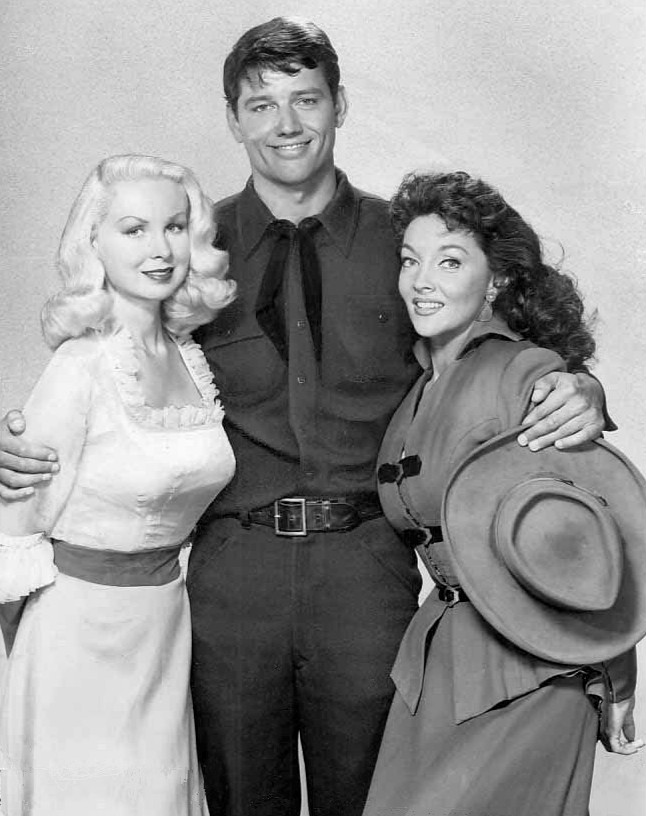 Photo of Ralph Taeger as Mike Halliday, Joi Lansing as Goldie and Mari Blanchard from the television program Klondike.